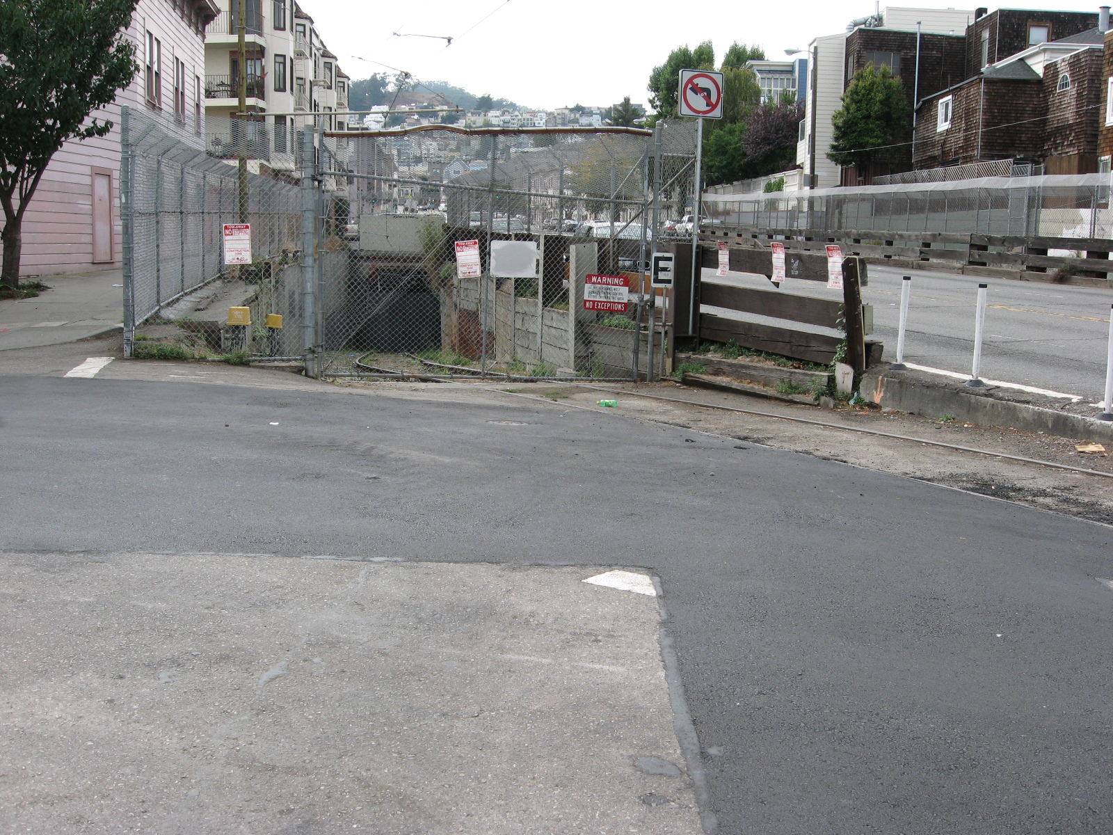 A unused portal that feeds onto the Twin Peaks Tunnel